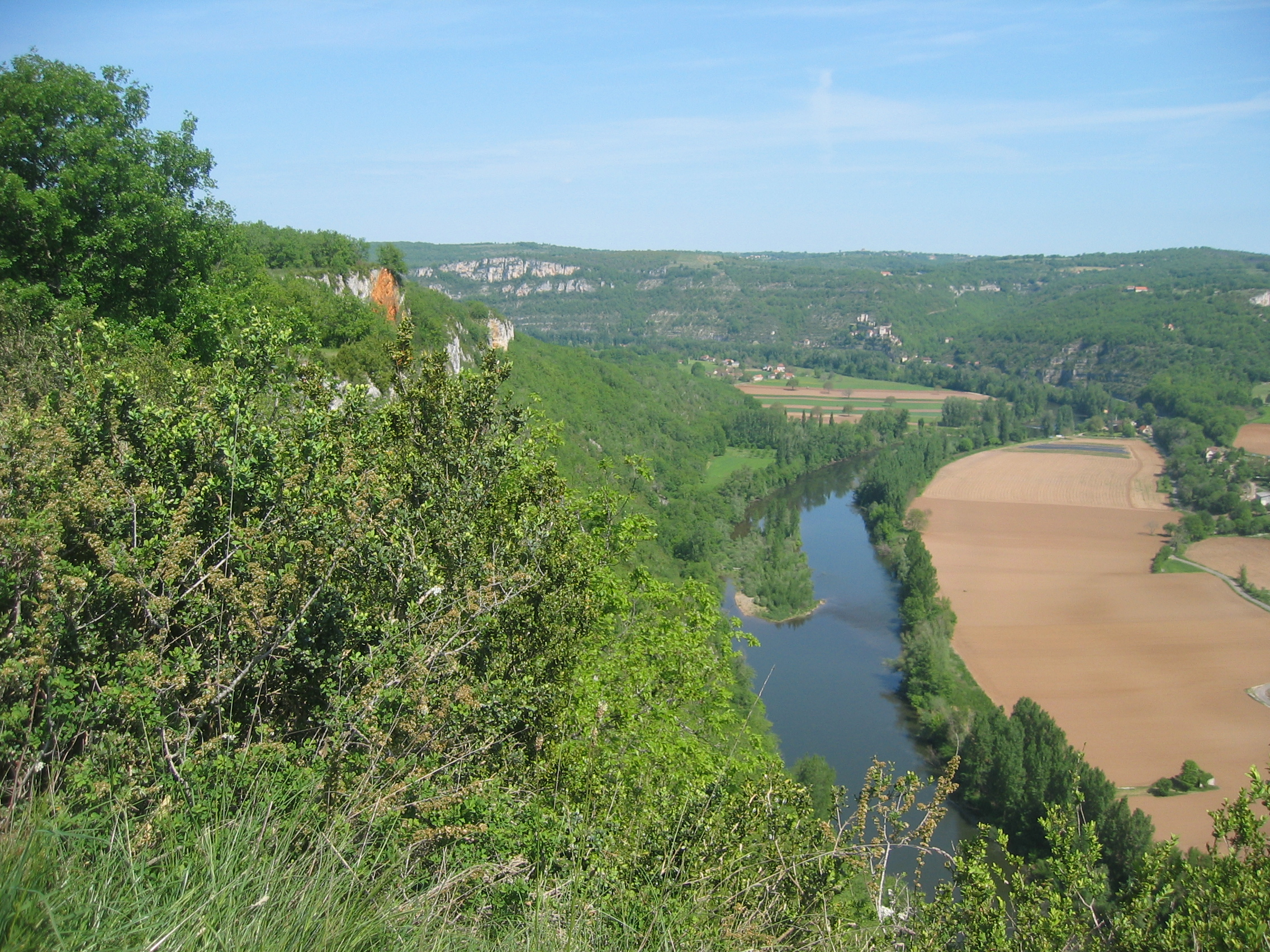 France, departement 46 (Lot): the valley of the river Lot upstream of Cajarc